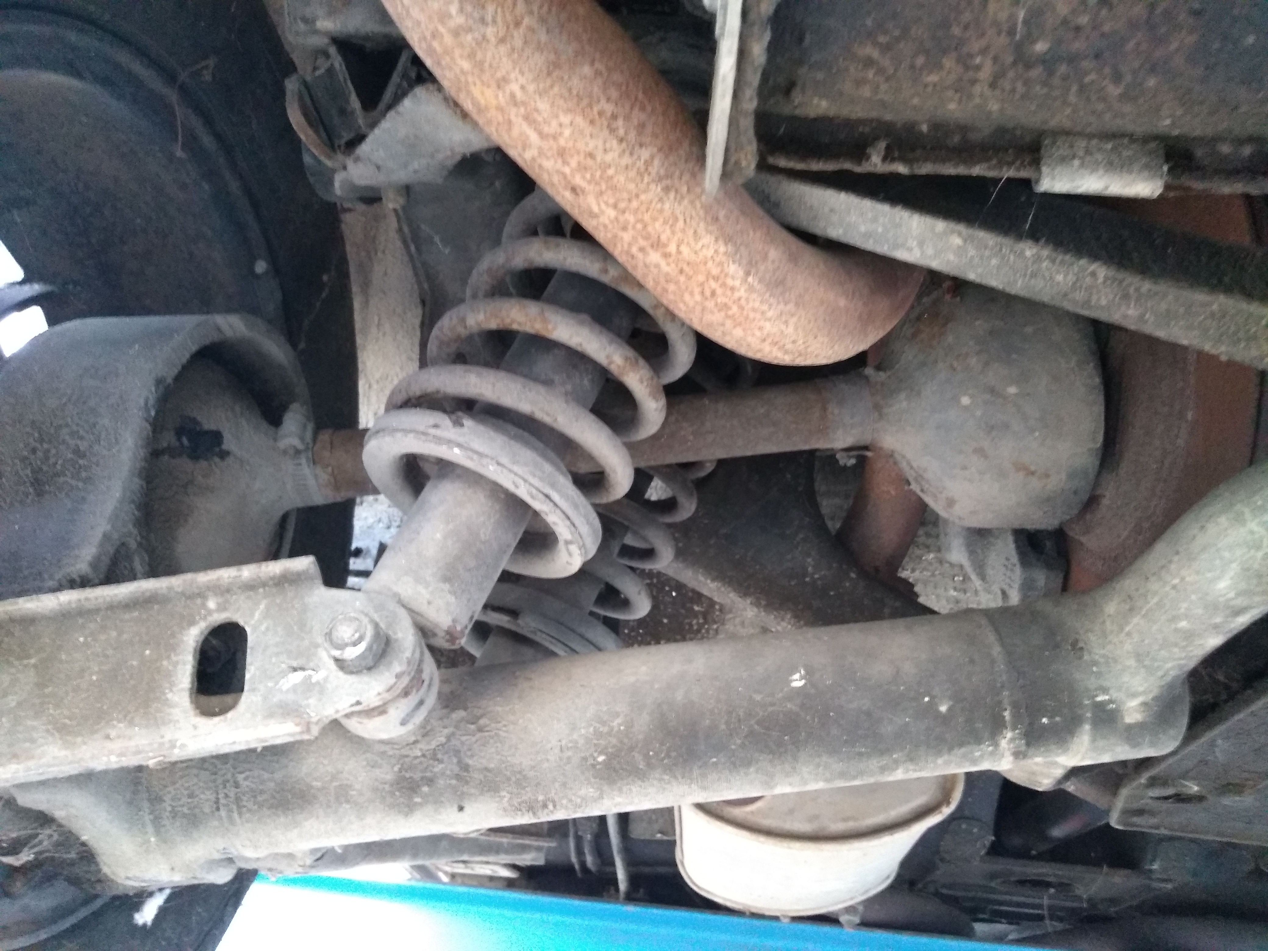 Jaguar XJ series 2 rear suspension